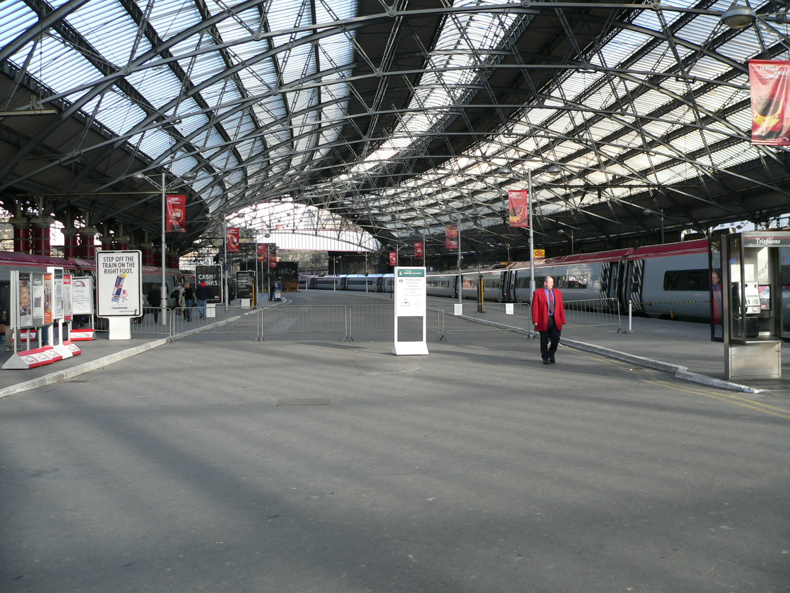 The space between platforms 7 and 8 at Liverpool Lime Street railway station is the location of the former cab road and taxi rank.